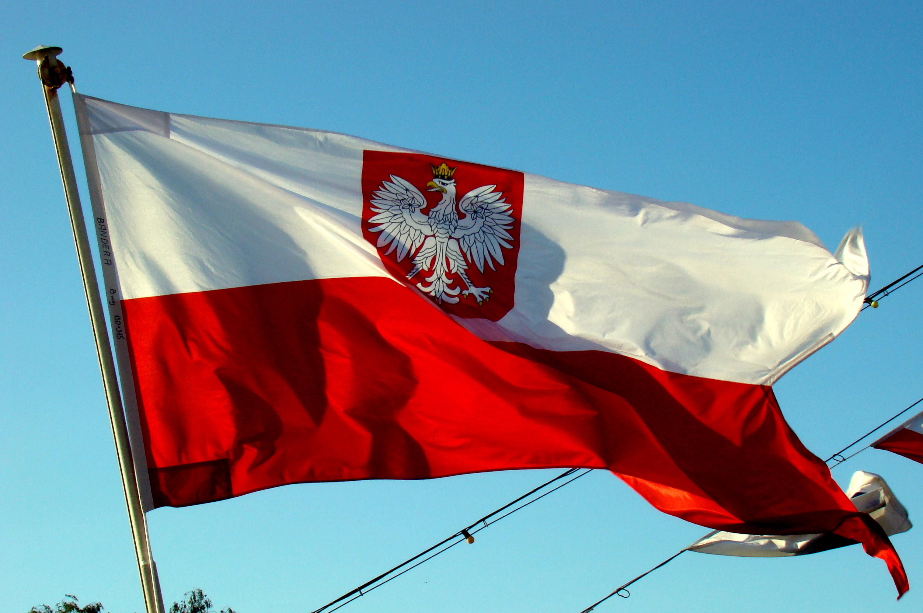 Polish naval ensign (Polish Navy Ensign)